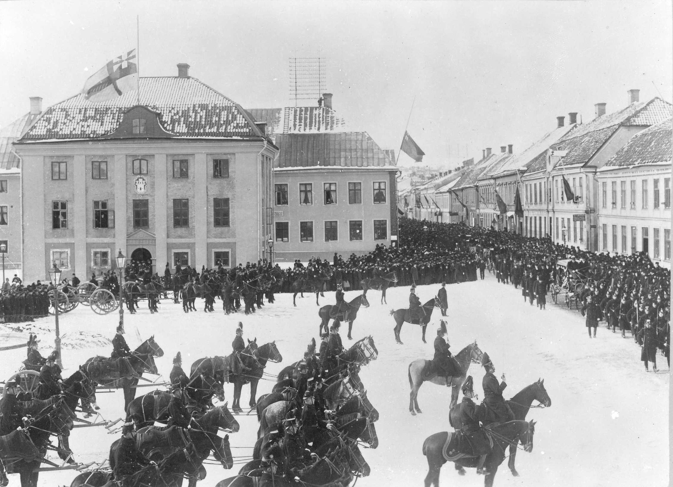 A military funeral in Jönköping, Sweden. Troops from The Artillery Regiment of Småland (Smålands artilleriregemente) on parade.